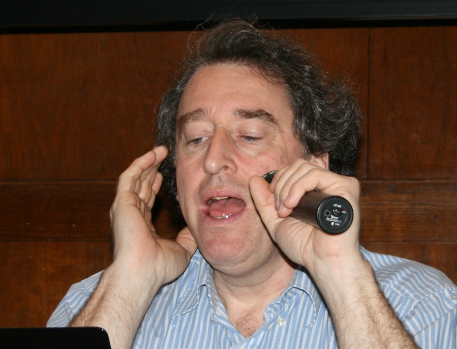 Bruce Perens speaking on a panel about software at the TACD meeting on Patents, Copyrights and Knowledge Governance: the next four years. Washington, DC, January 12-13, 2009.